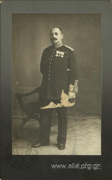 Greek officer and revolutionary Christos Zoukis.